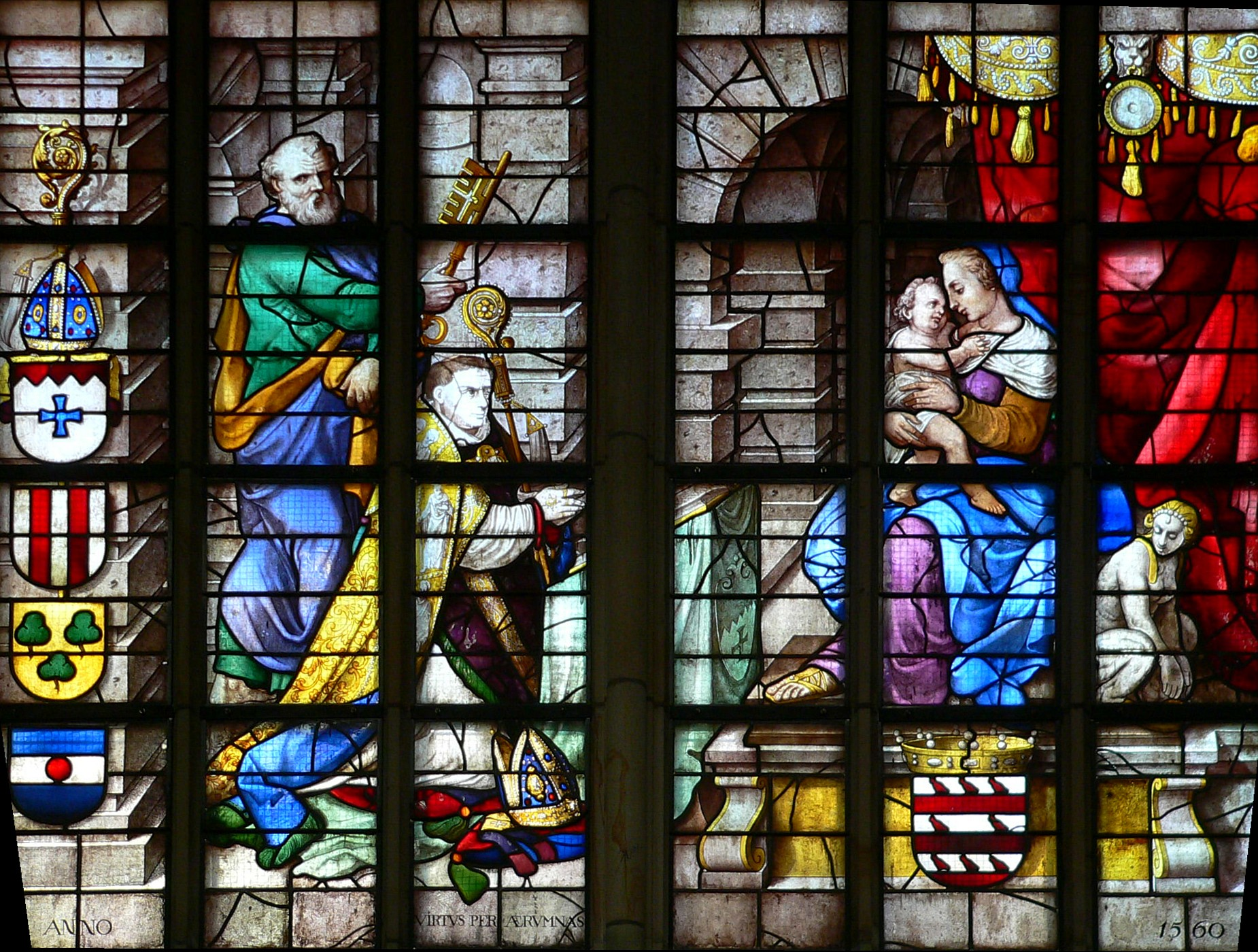 The stained-glass window number 13 designed by Lambert van Noort (detail) in the Sint Janskerk at Gouda/Netherlands: Title of the window: "Christ diputing with the doctors in the temple". This detail of the lower part of the window, below the main subject, shows the donor Petrus van Zuyren on the left with his namesake, the apostel Peter, and on the right, Maria and christ child.